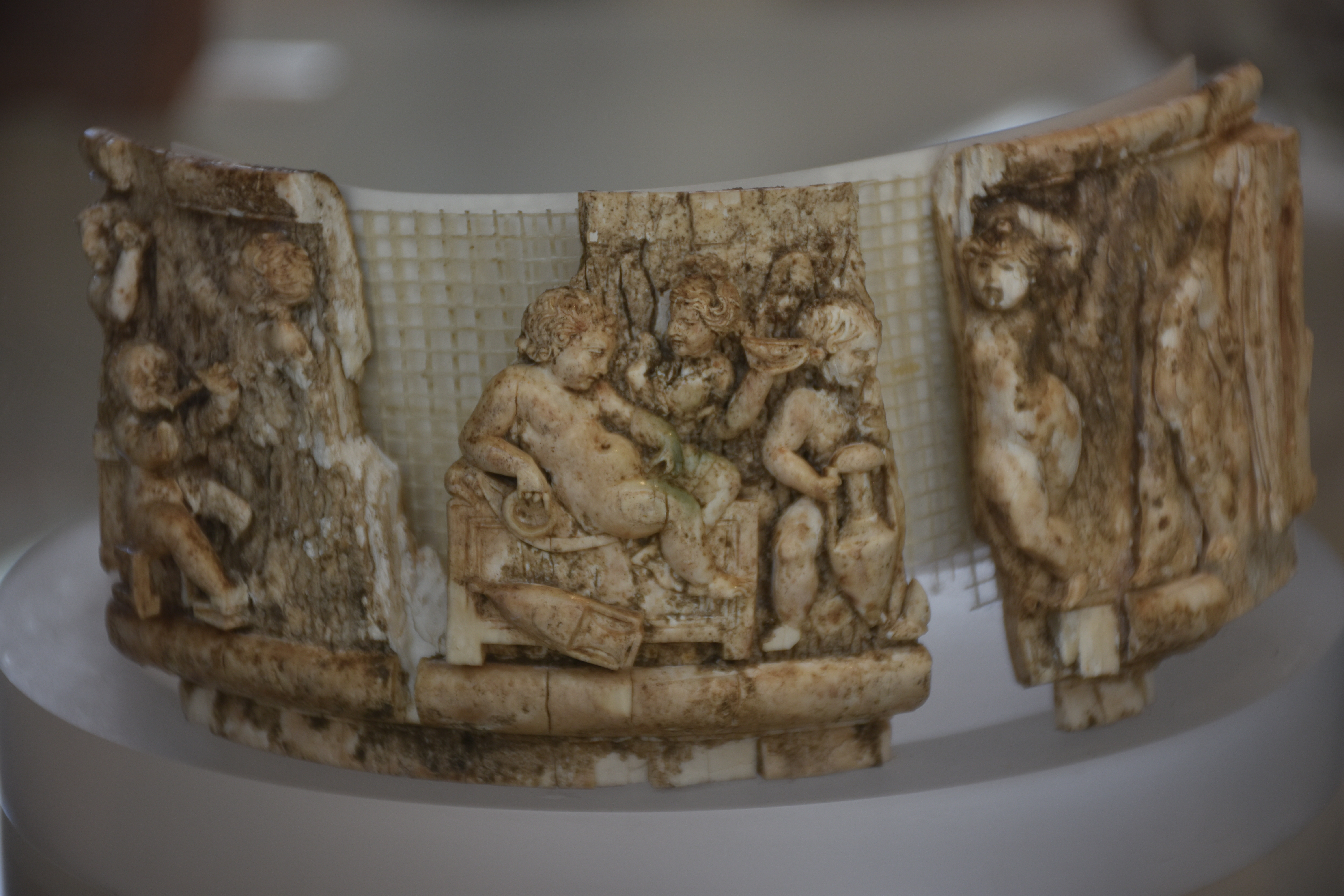 This is a photo of a monument which is part of cultural heritage of Italy.